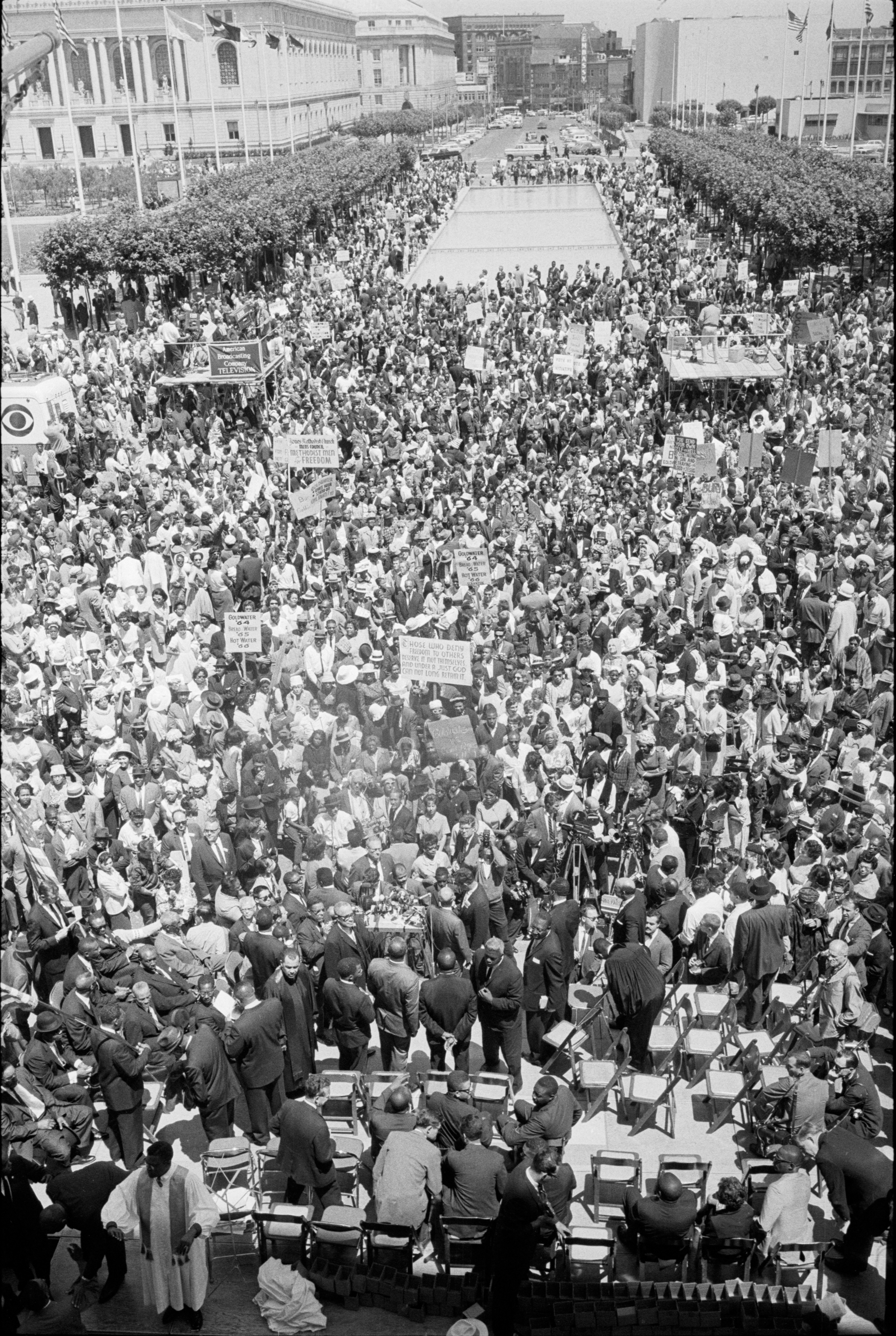 Civil rights parade at the 1964 RNC